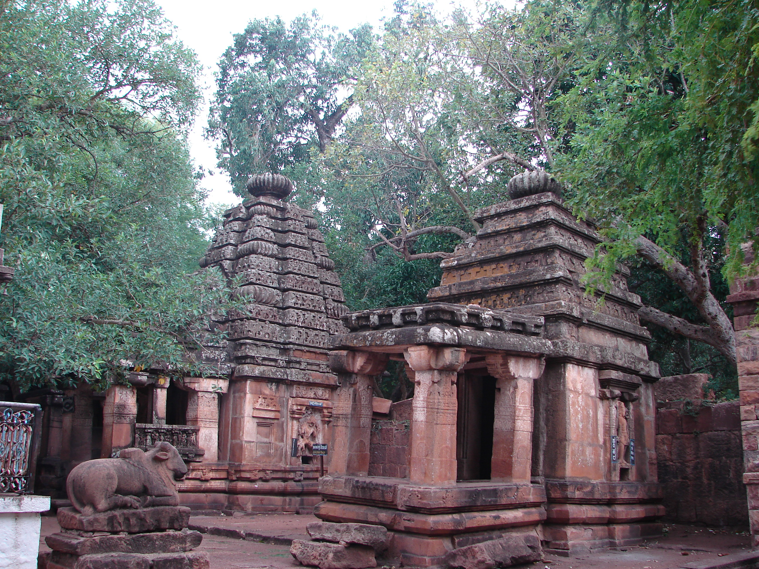 A Vishnu temple in nagara style on the left. The Mahakuta group of temples were consecrated by the Badami Chalukyas in the 6th-7th century time period in Mahakuta, Bagalkot district of Karnataka state, India.